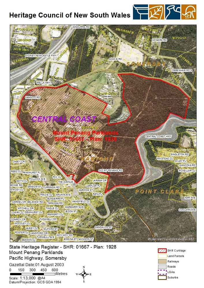 Mount Penang Juvenile Justice Centre: Plan No. 1928